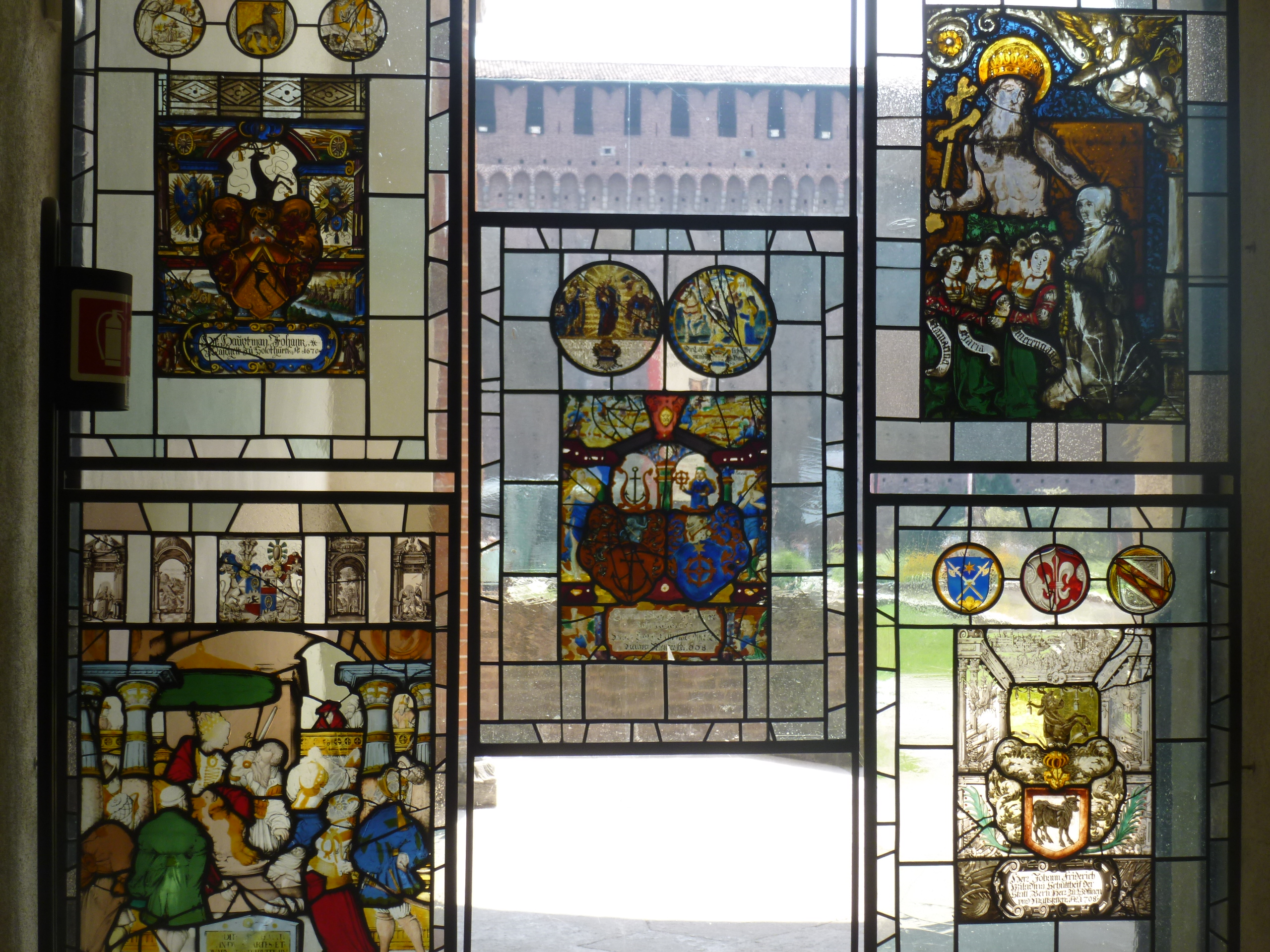 This is a photo of a monument which is part of cultural heritage of Italy.